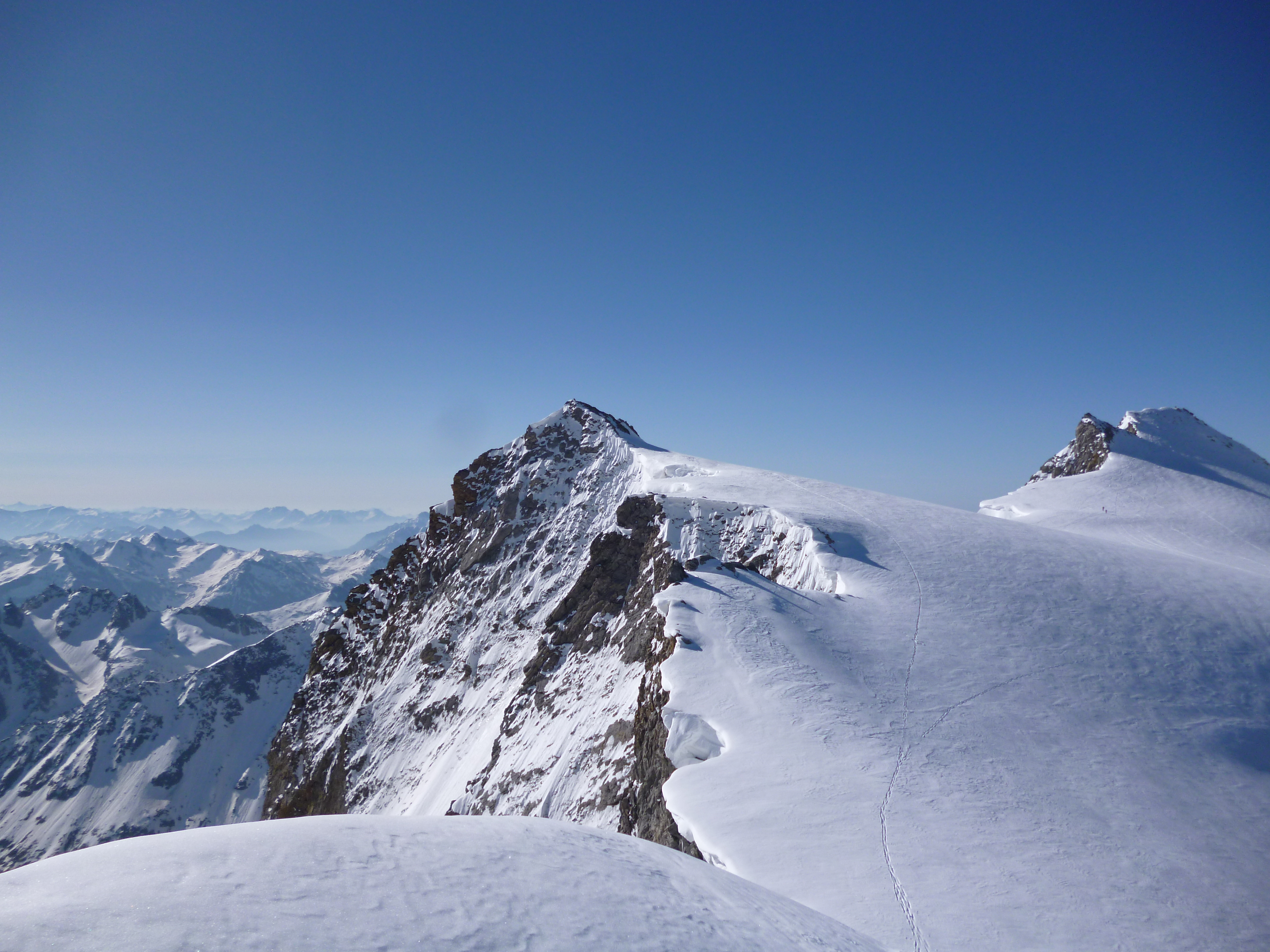 Schneestock from north, west from P.3583